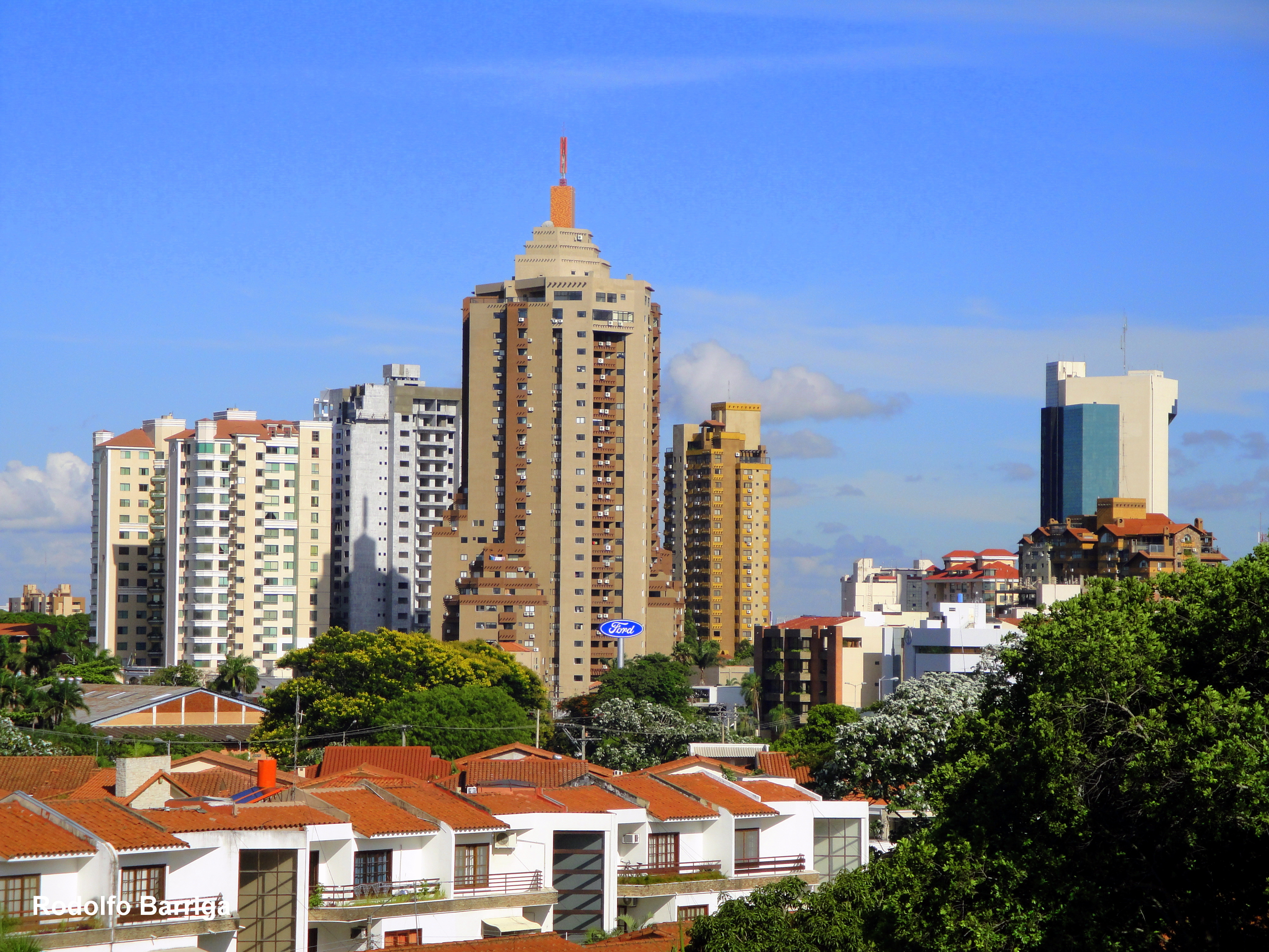 The skyline of the northern part of the city of Santa Cruz, with residential buildings and the city's courthouse.